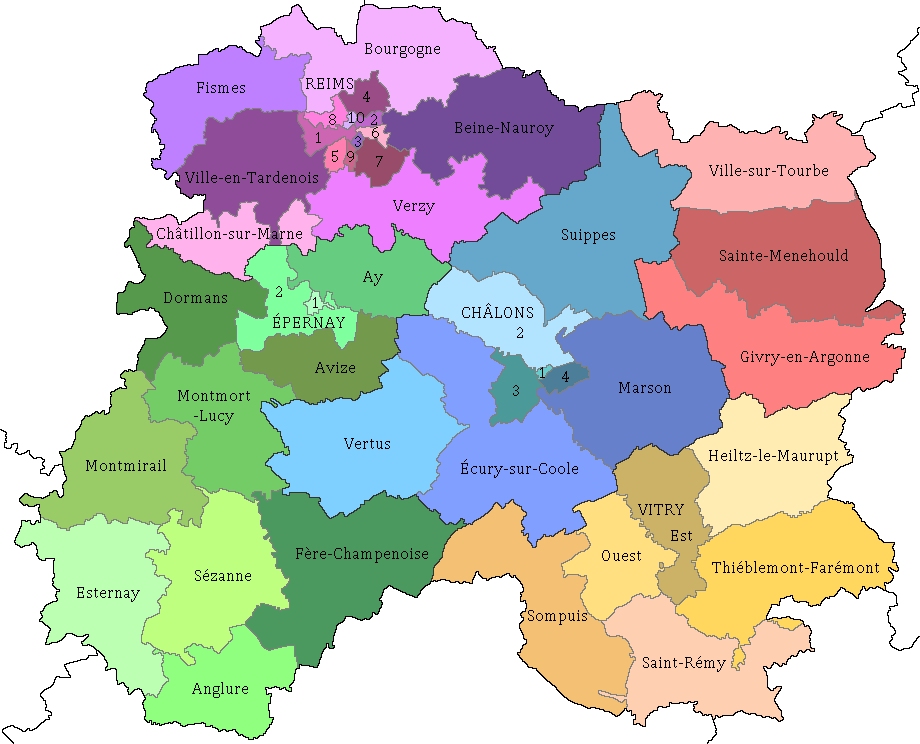 Cantons of the Marne department